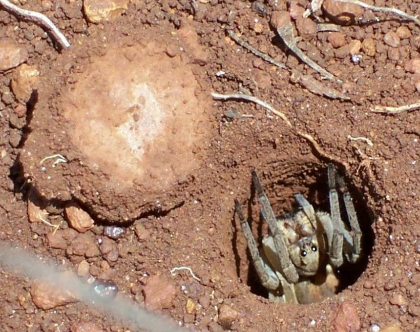 Picture of a Wolf Spider (Lycosidae) looking out from its burrow. Picture taken up on range near Toowoomba, Queensland Australia.